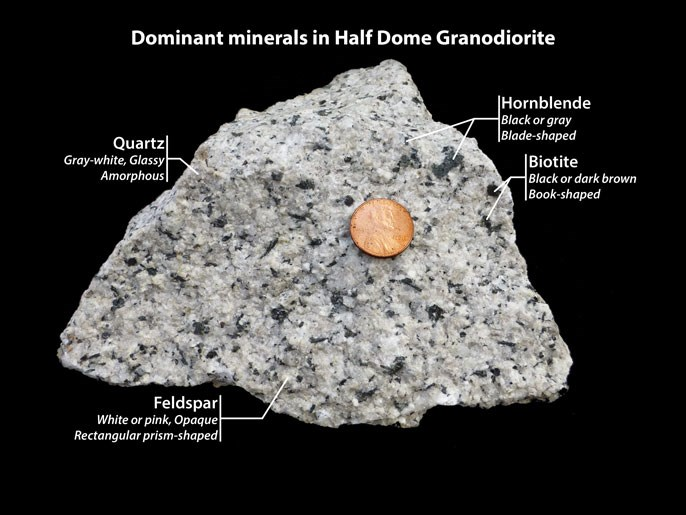 Dominant minerals of Half Dome Granodiorite